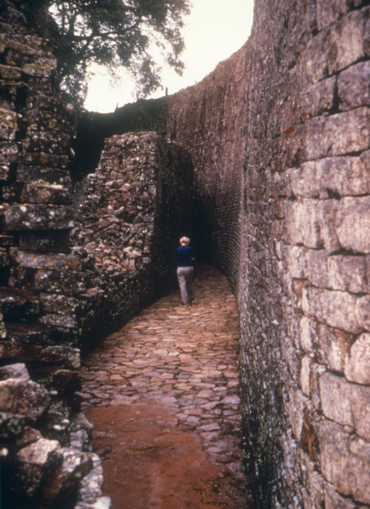 "This photo depicts the 700 year old Great Zimbabwe Ruins; one of the South African sites visited by two Marburg patients, 1975. A CDC epidemiologic investigation revealed that in 1975, a traveler (case #1), most likely exposed in Zimbabwe, became ill in Johannesburg, South Africa, and passed the Marburg virus to his traveling companion (case #2), and a nurse (case #3)."